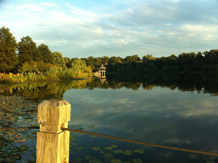 View of the pier at Lake Artemesia